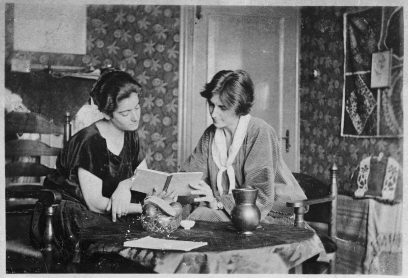 Frieda Belinfante (left) sits at a table with her partner in their home at Hendrik Jacobszstraat in Amsterdam. Henriette Bosmans, a well-known composer and pianist, was the partner of Frieda Belinfante for seven years.